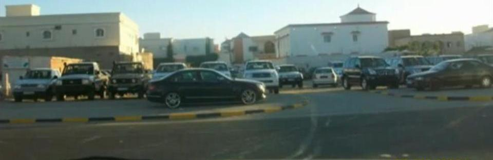 park in nouakchott